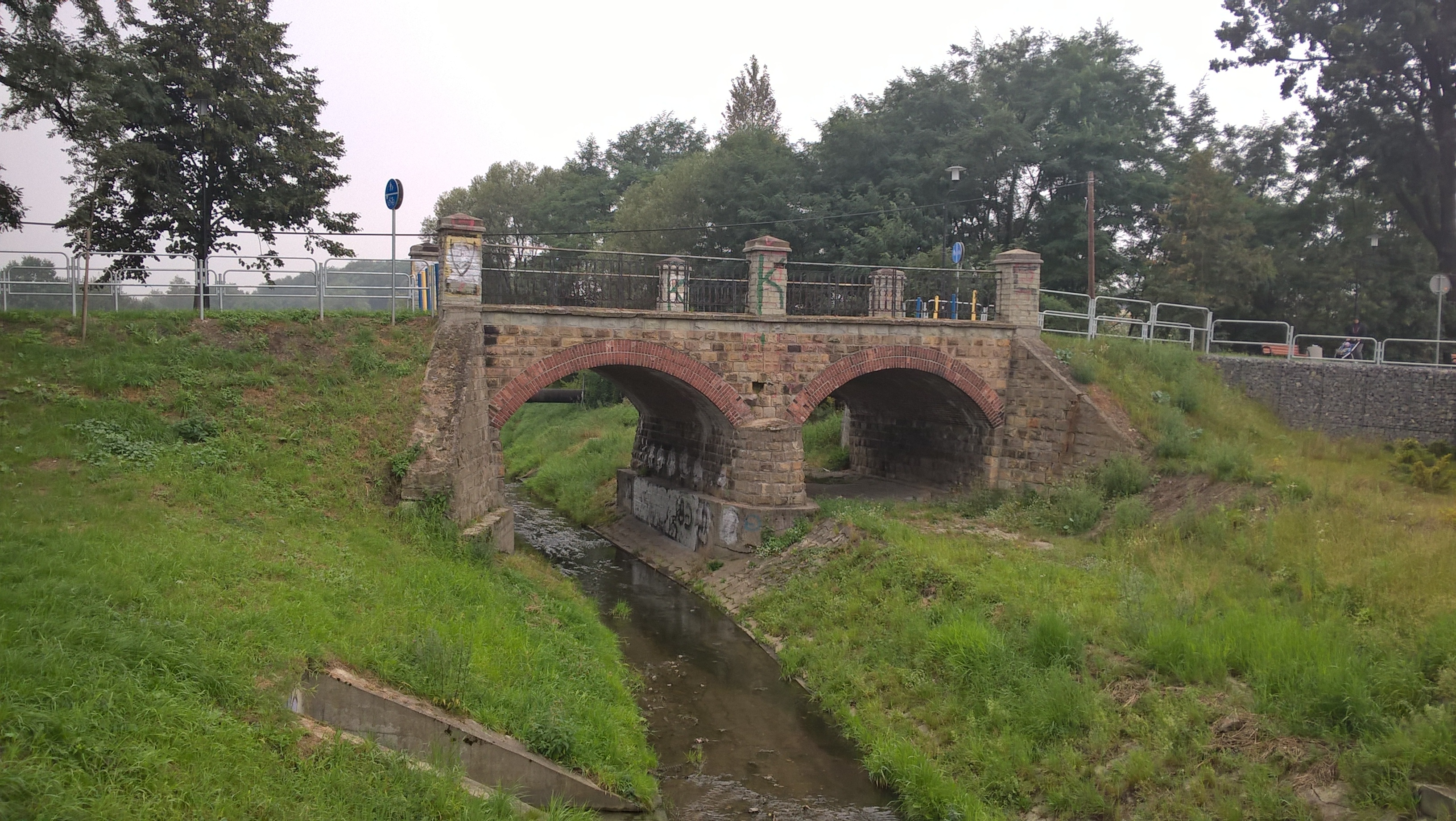 Most na rzece Mleczna.